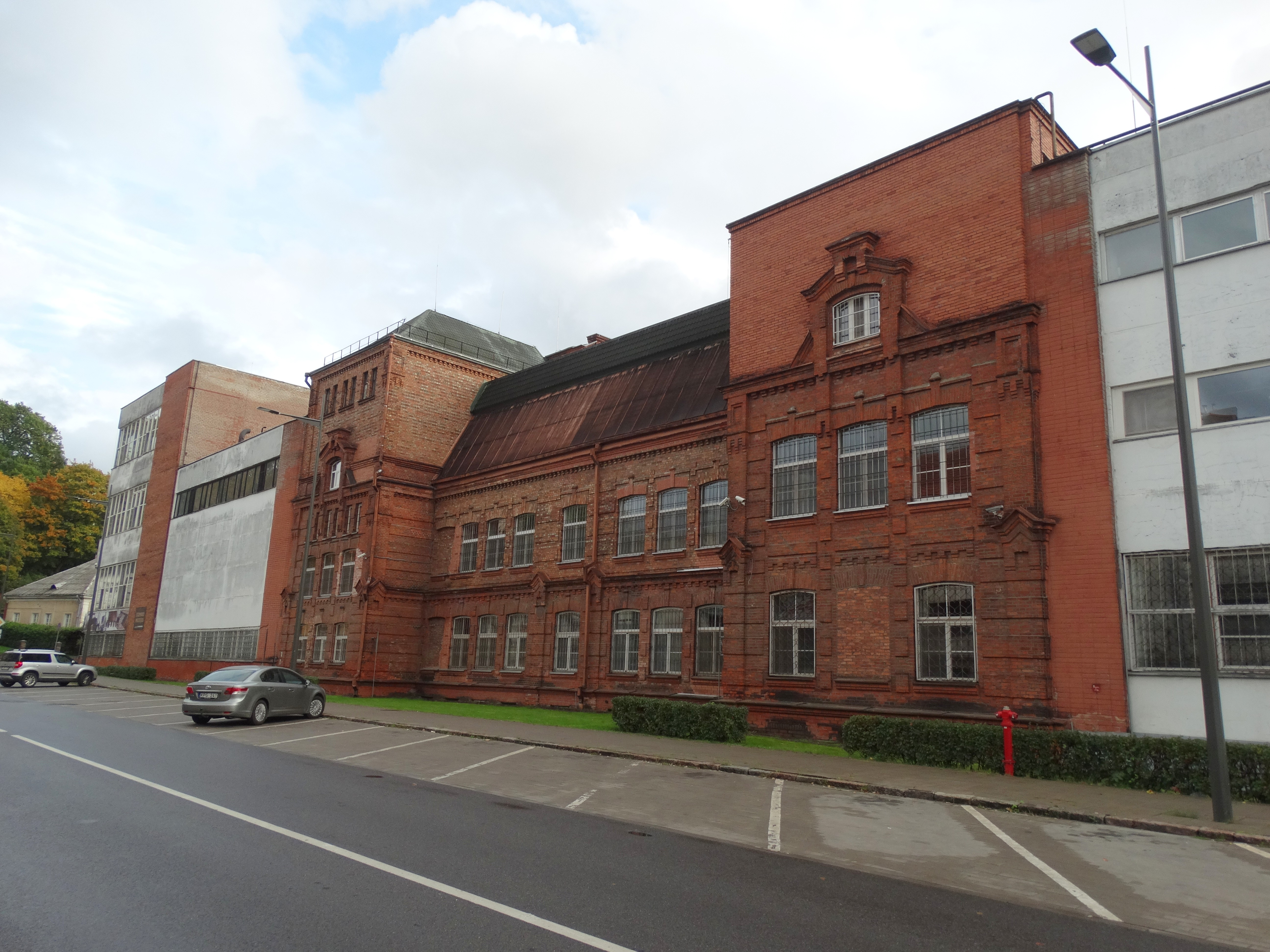 AB Stumbras, producer of strong alcoholic drinks, Kaunas, Lithuania